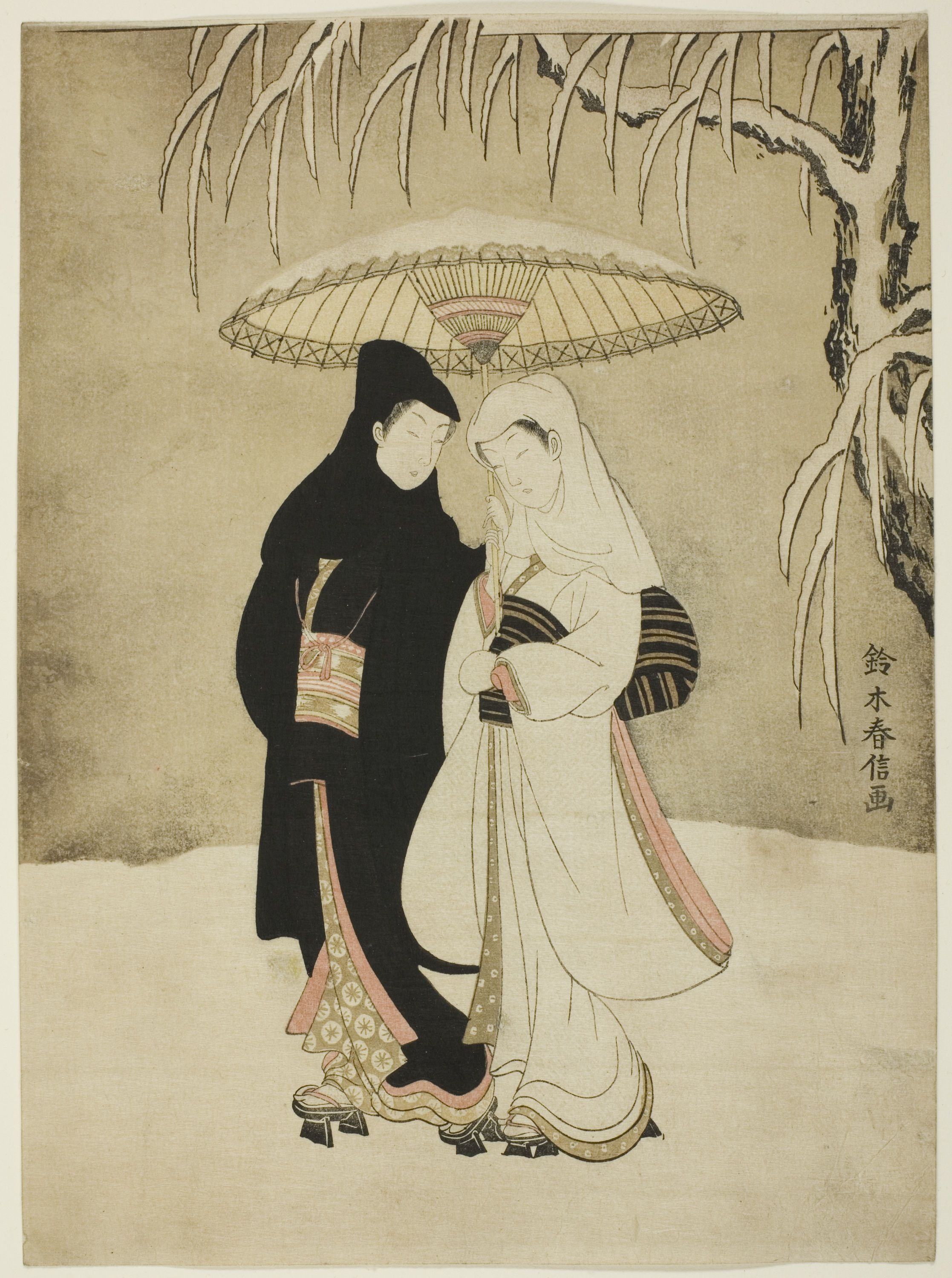 Two Lovers Beneath an Umbrella in the Snow, Color woodblock print; chuban. 27.2 x 20.2 cm. Held at the Art Institute of Chicago